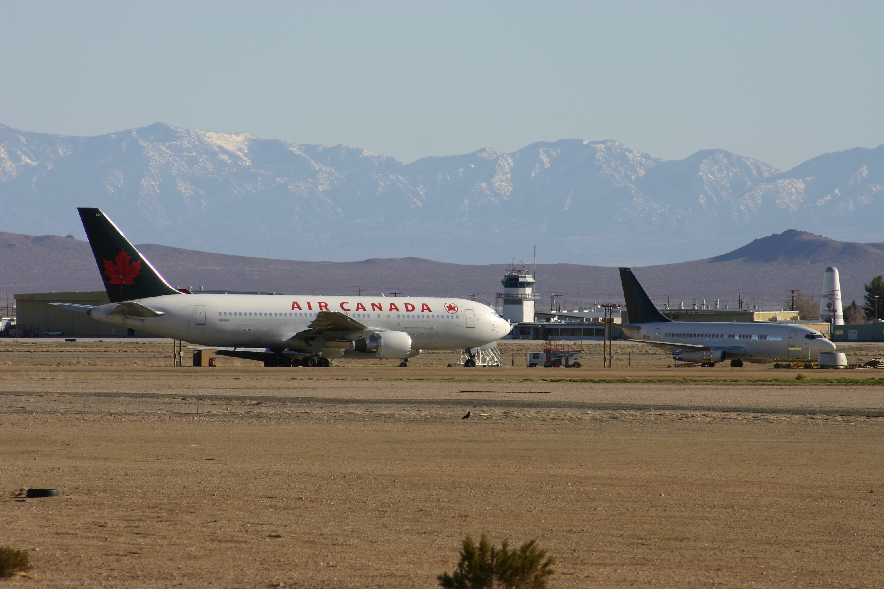 Gimli Glider at Mojave Air & Space Port; in the near background are the Voyager Restaurant (named for the Rutan Voyager) at the old control tower and the Rotary Rocket Roton ATV; in the far background, the snow-capped peaks are the San Bernardino Mountains